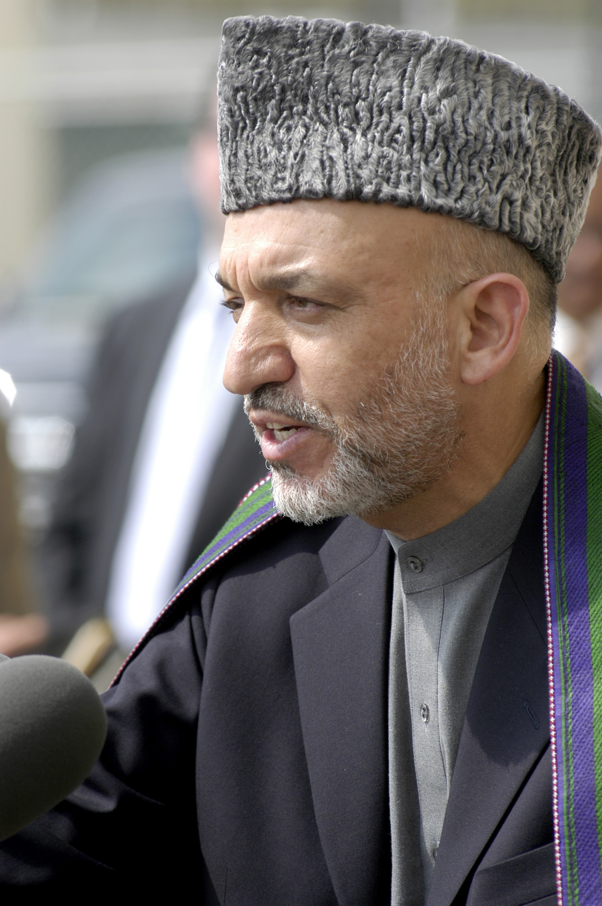 Afghan President Hamid Kazai speaks to reporters during a joint media availability with Secretary of Defense Donald H. Rumsfeld at the Pentagon on June 14, 2004.